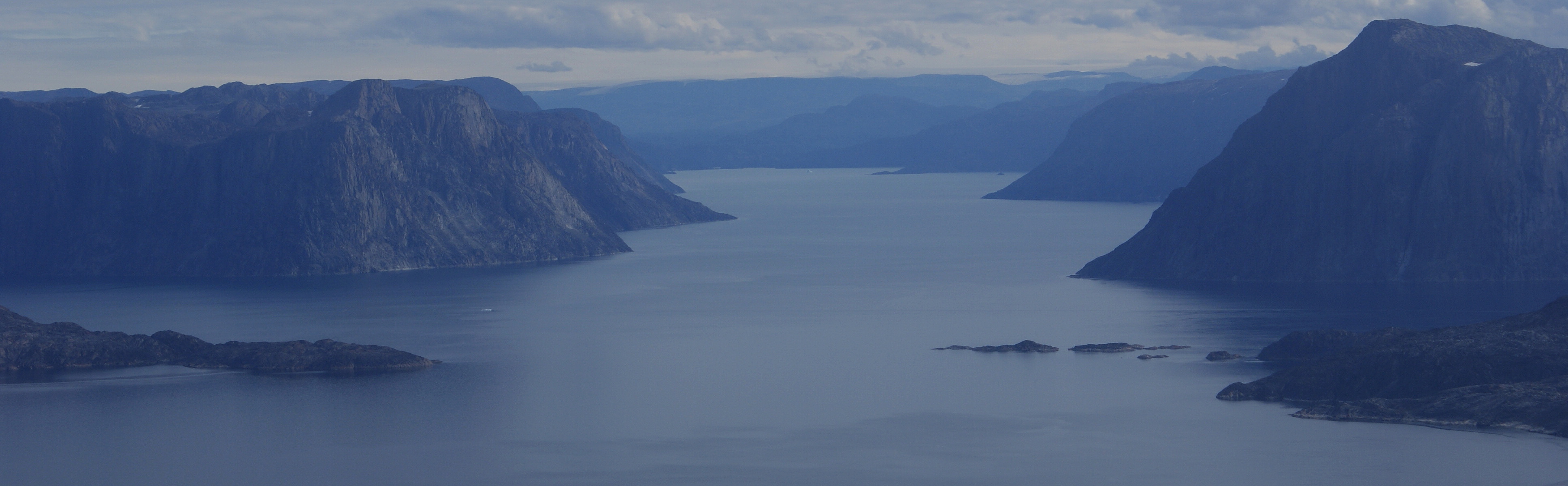 Aerial view of Akuliaruseq Island, Eqalugaarsuit Sulluat Fjord, and Kangeq Peninsula. Upernavik Archipelago, Greenland. Photographed from the Air Greenland Bell 212 helicopter during the Upernavik Kujalleq - Upernavik flight.